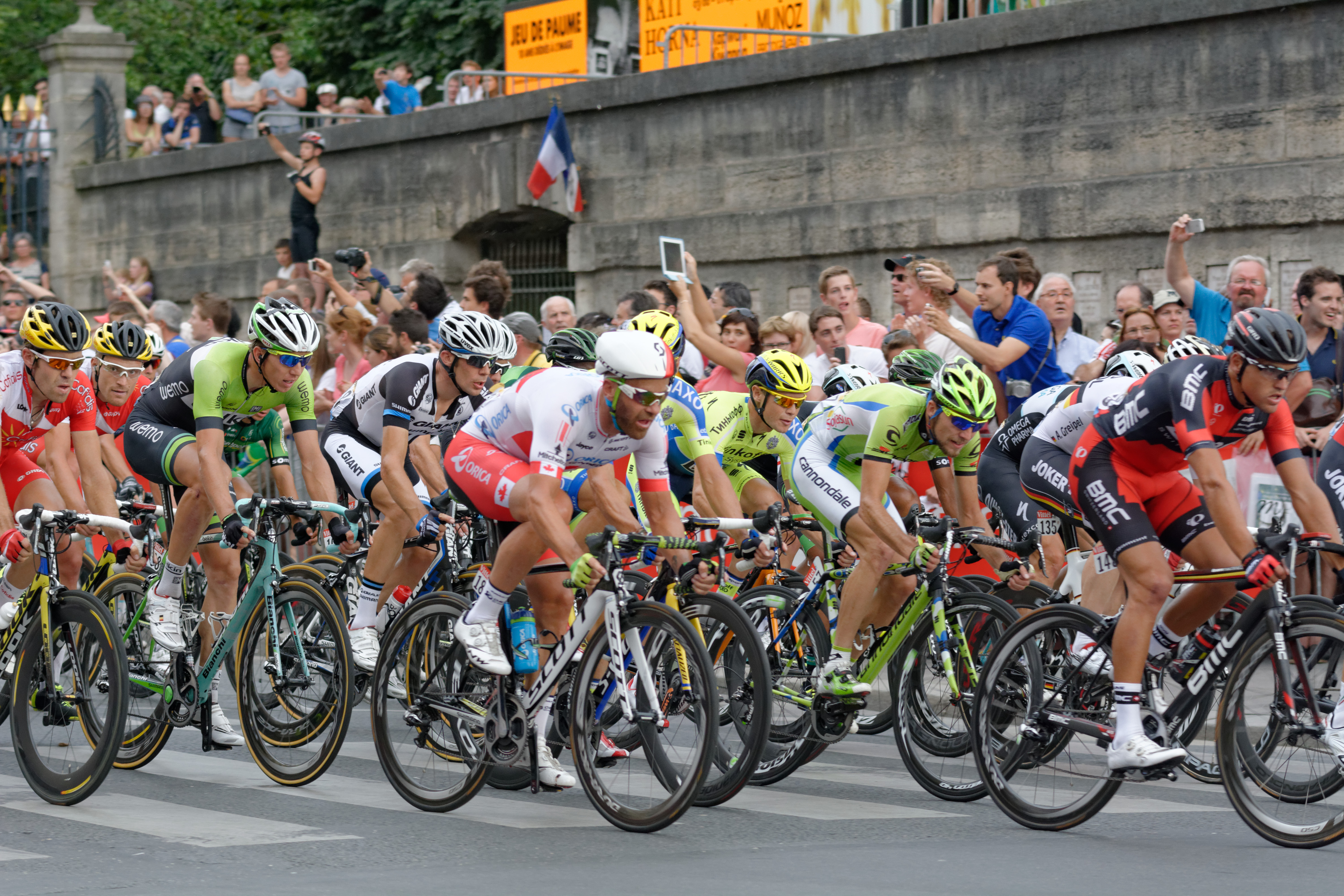 Stage 21 of the 2014 Tour de France, Paris.